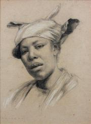 Antillean Woman with Bandanna